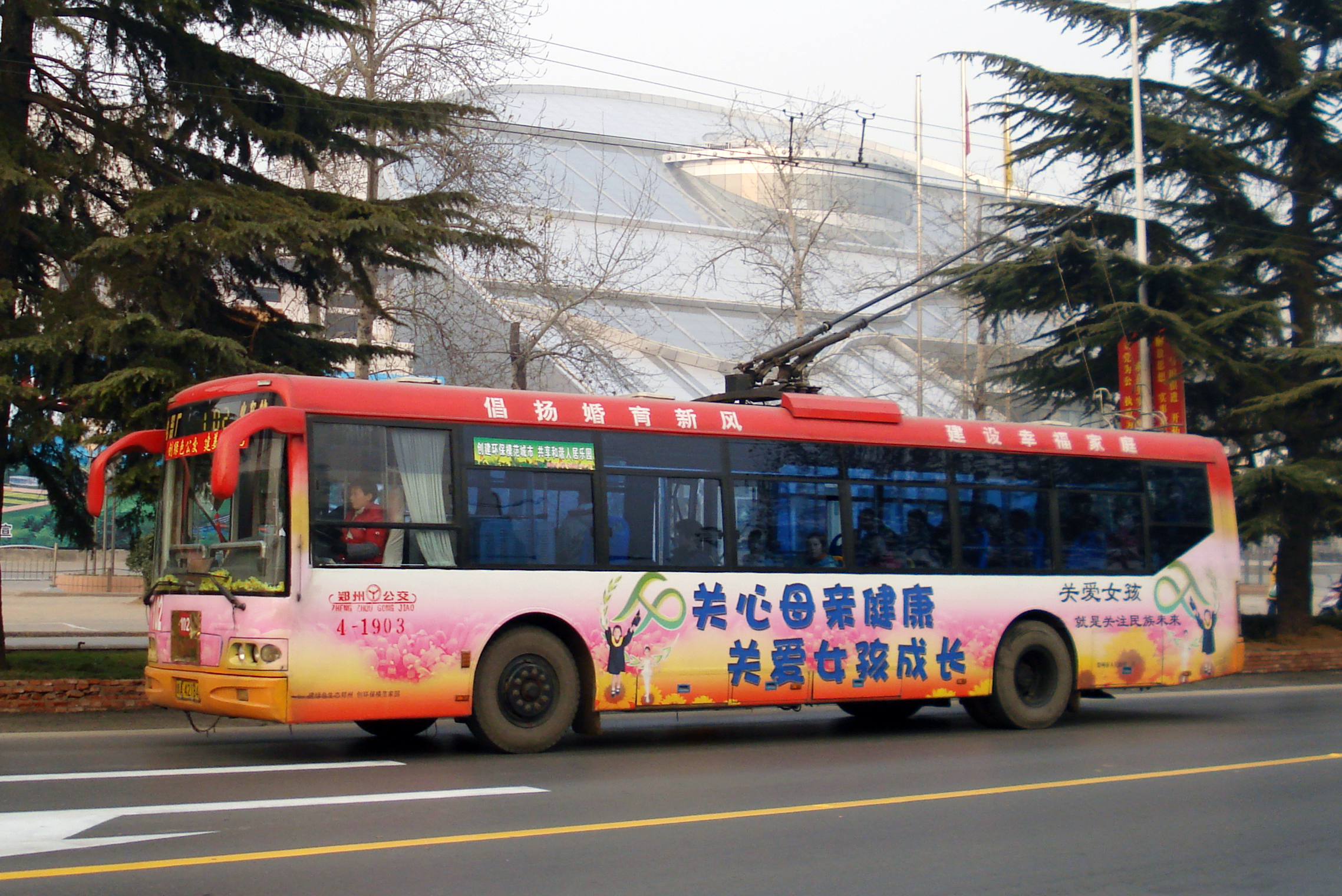 SWB5115GP trolleybus on Zhengzhou Bus Route 102